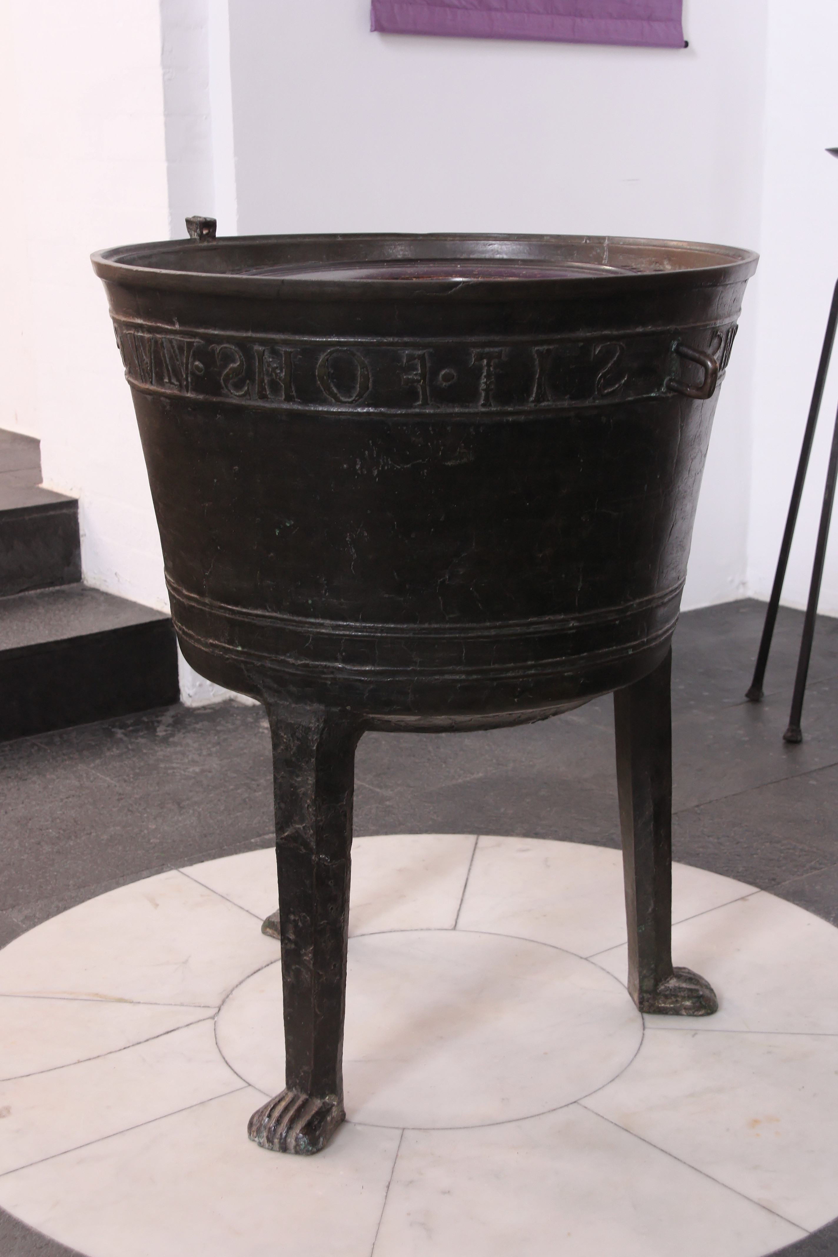 Hamburg, Church of Blankenese, Baptismal font from the 13. century